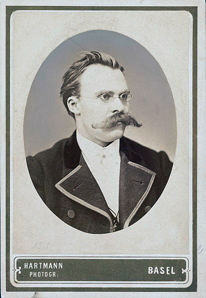 Friedrich Nietzsche as Professor of Classical Philology at the University of Basel in Switzerland.